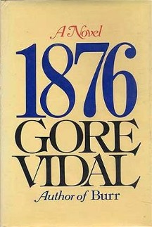 The front cover of the novel 1876.